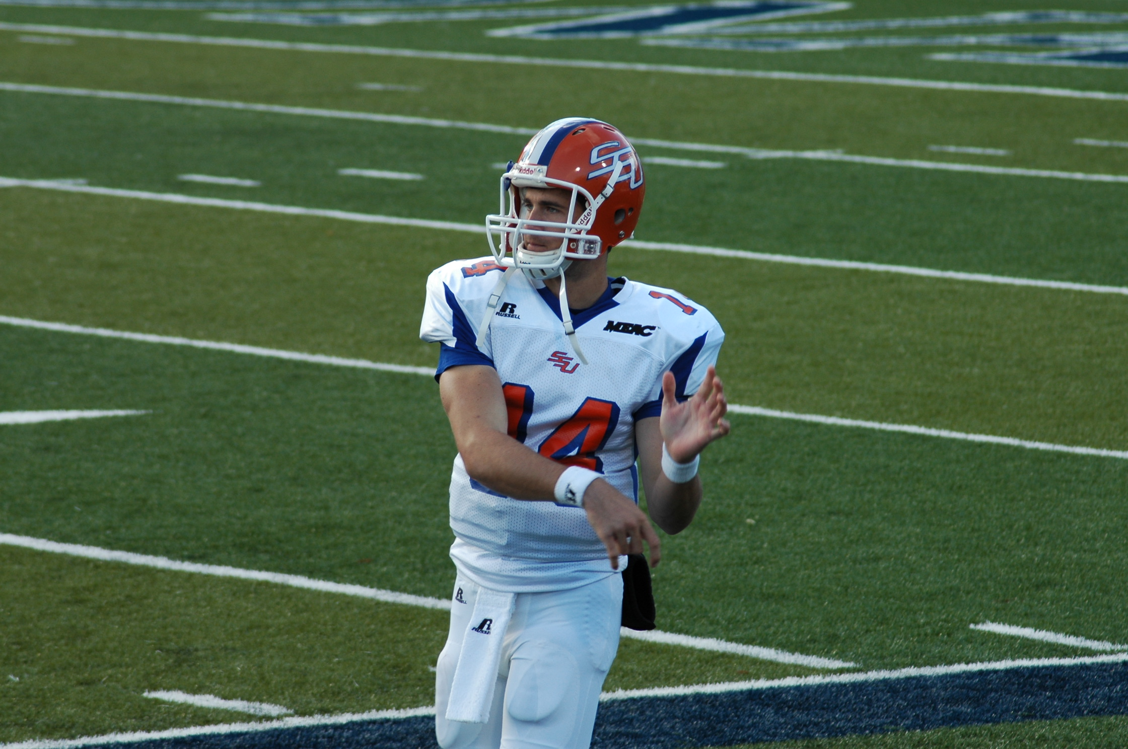 Photo of Savannah State University quarterback A.J. Defillips taken on November 6, 2010 in Norfolk, Virginia.